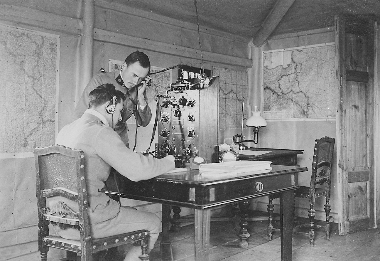 Radio listening stations on the Eastern Front, 1915